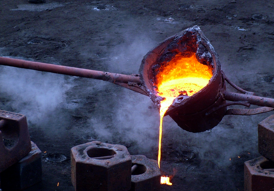 வார்பட தொழிற்சாலையில்- தொழிலாளர்கள் -இரும்பு உருக்கி வார்க்கப்படும் போது